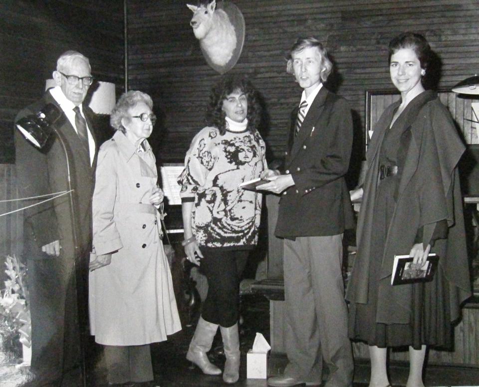 Reception at the Upperville Meeting House